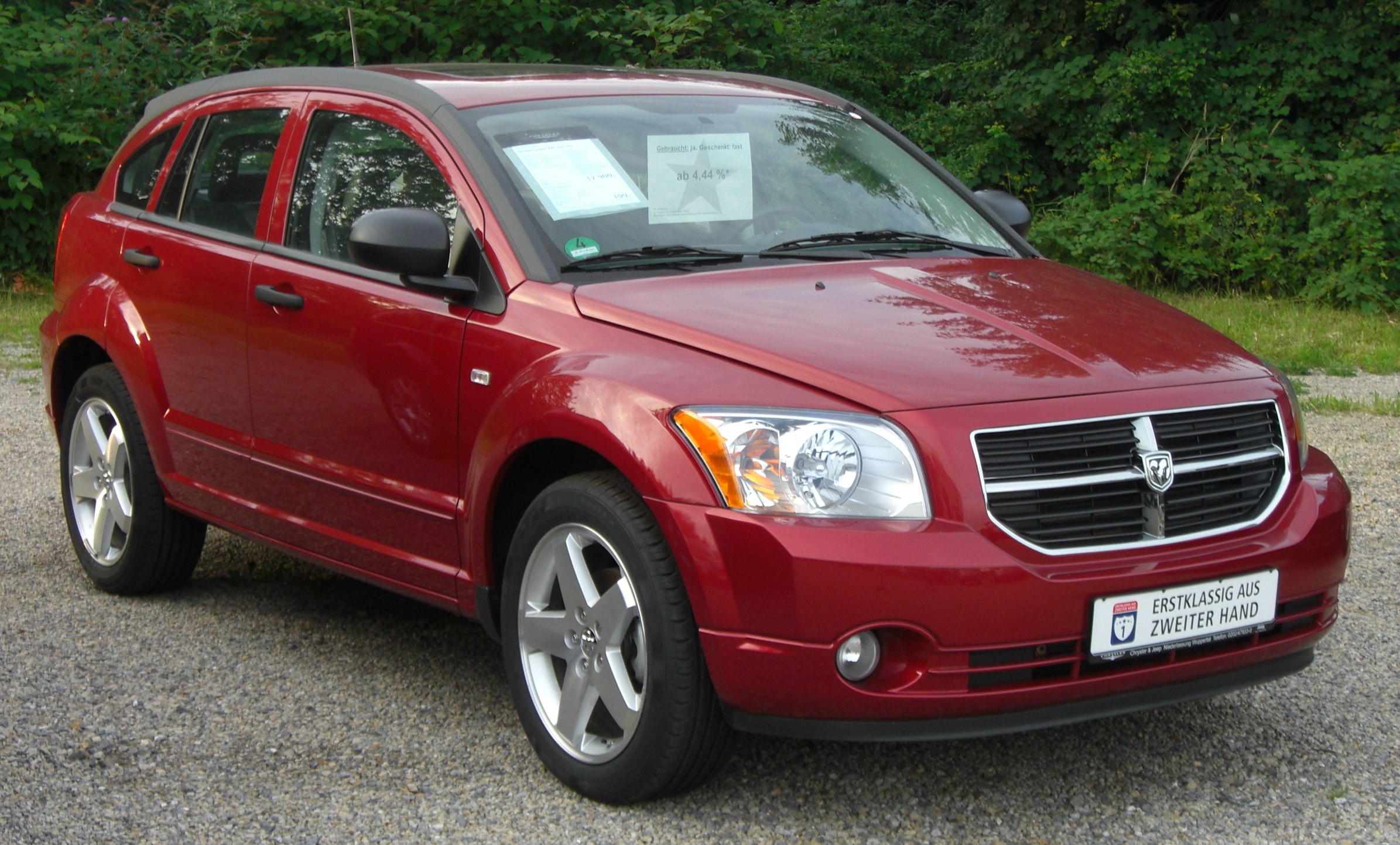 Dodge Caliber